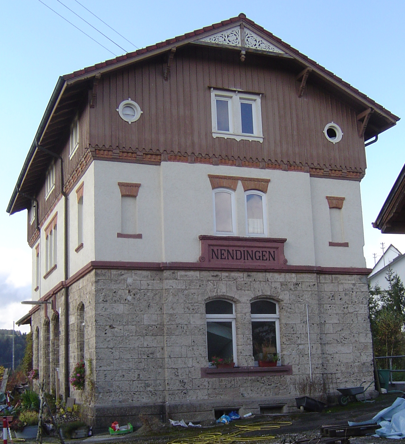 The station of Nendingen.